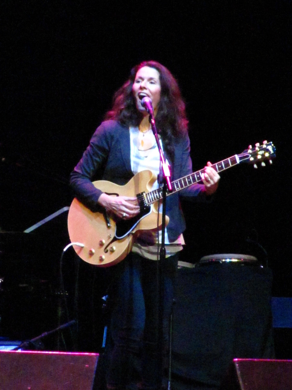 Edie Brickell, New York 2011.